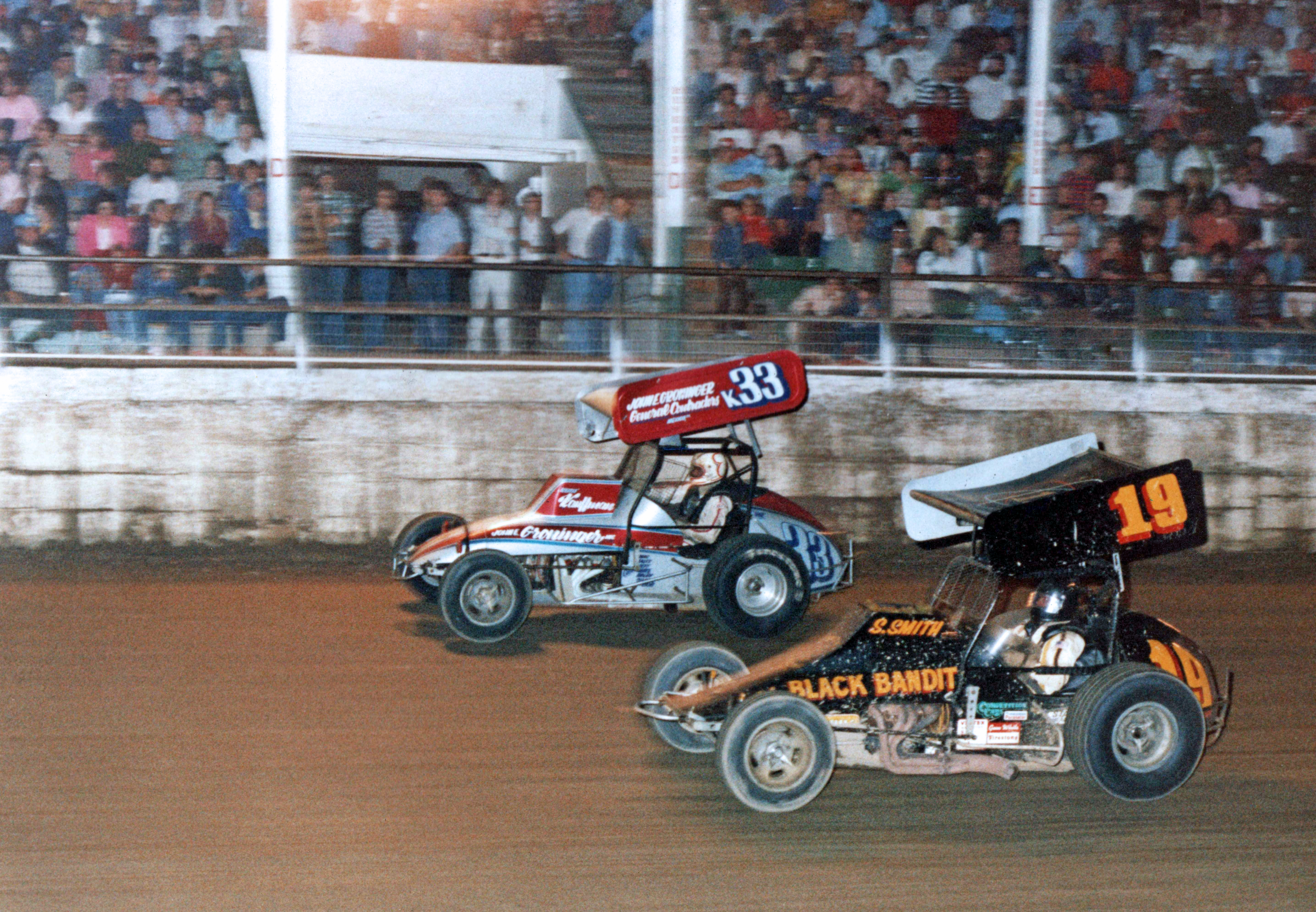 Port Royal Speeway 1978 Tuscarora 50. Steve Smith leads all laps except final. Kauffman blew motor in warm-ups, went home, changed it, came back and started dead last in the feature. Passing one car at a time until catching Smith a the checker. Kauffman won and this picture shows the pass.